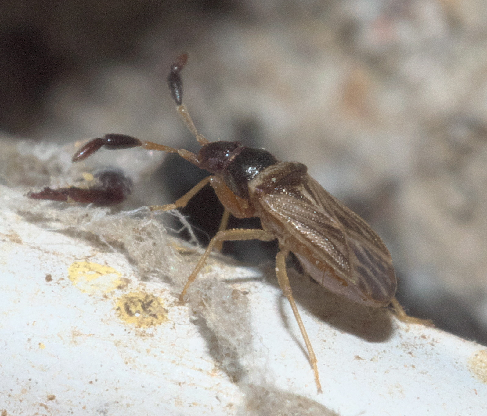 Ptochiomera nodosa, Family: Dirt-colored Seed Bugs, ID Confidence: 90